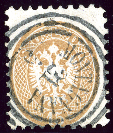 Stamp of Lombardy and Venetia, 15 soldi issue 1864, cancelled at MONTAGNANA (Mueller type R3S-f). Michel N°23.